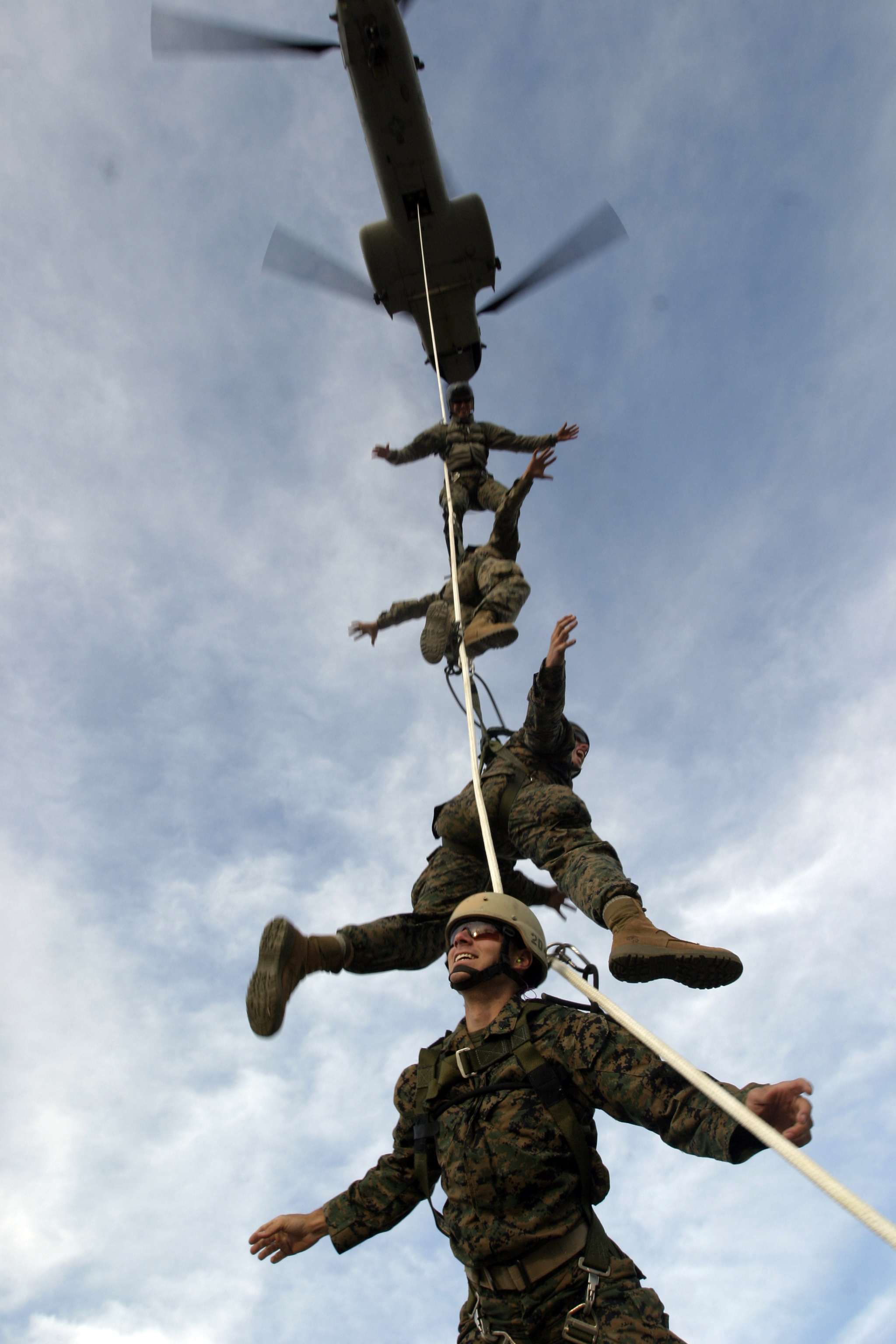 Members of 1st Marine Special Operations Battalion, U.S. Marine Corps Forces, Special Operations Command Operators are lifted from the ground by a CH-46 Sea Knight helicopter during Special Purpose Insertion/Extraction rigging at Camp Margarita, aboard Camp Pendleton, Nov. 4. The operators took part in the first ever MARSOC Helicopter Rope Suspension Training Masters course, which ran from Oct. 27, to Nov. 7.